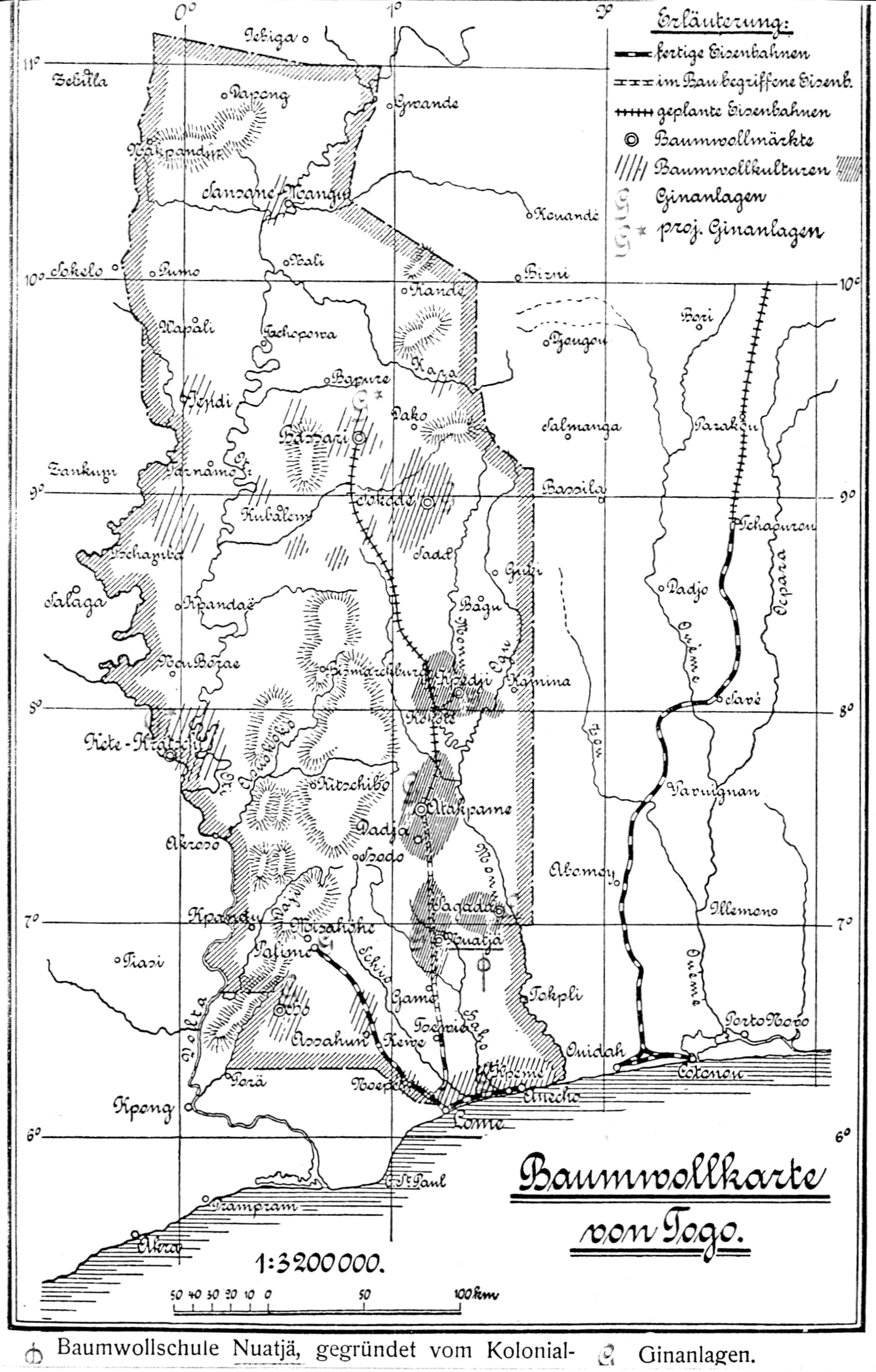 German map for cotton cultivation in the former colony Togo by 1909/1910. The then-common German name "Ginanlagen" (gin plants) has nothing to do with the production of spirits, but the term is derived from the English word "engine" and features facilities for the processing of rough cotton.